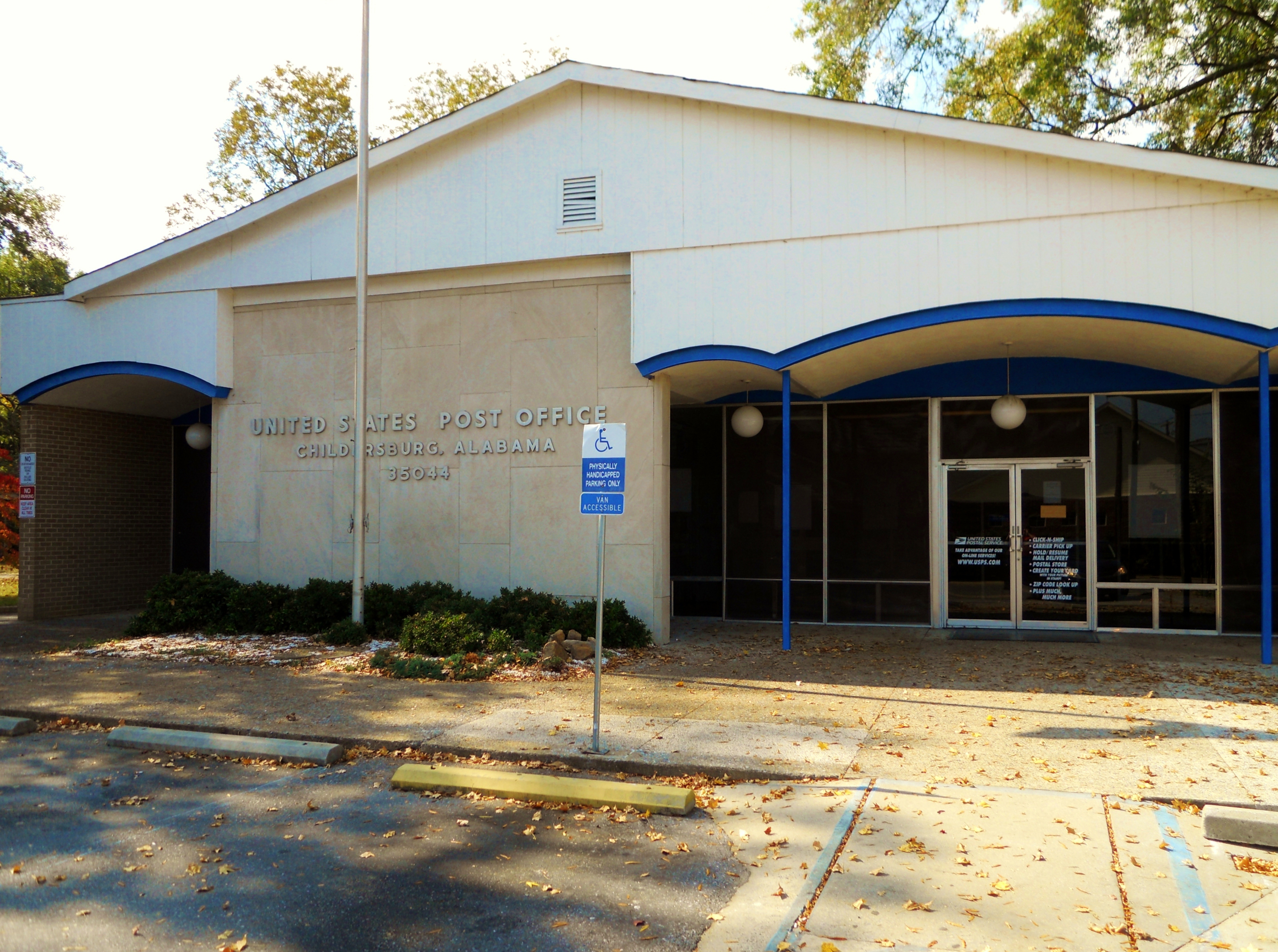 This is a photo of the post office in Childersburg.